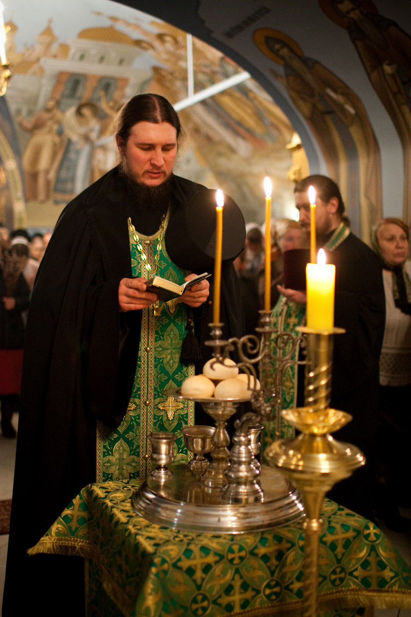 Vigil service. Litiy. Entry into Jerusalem. 23 March 2010.